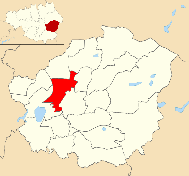 Map showing location of St. Peters Ward within Tameside Metropolitan Borough Council.